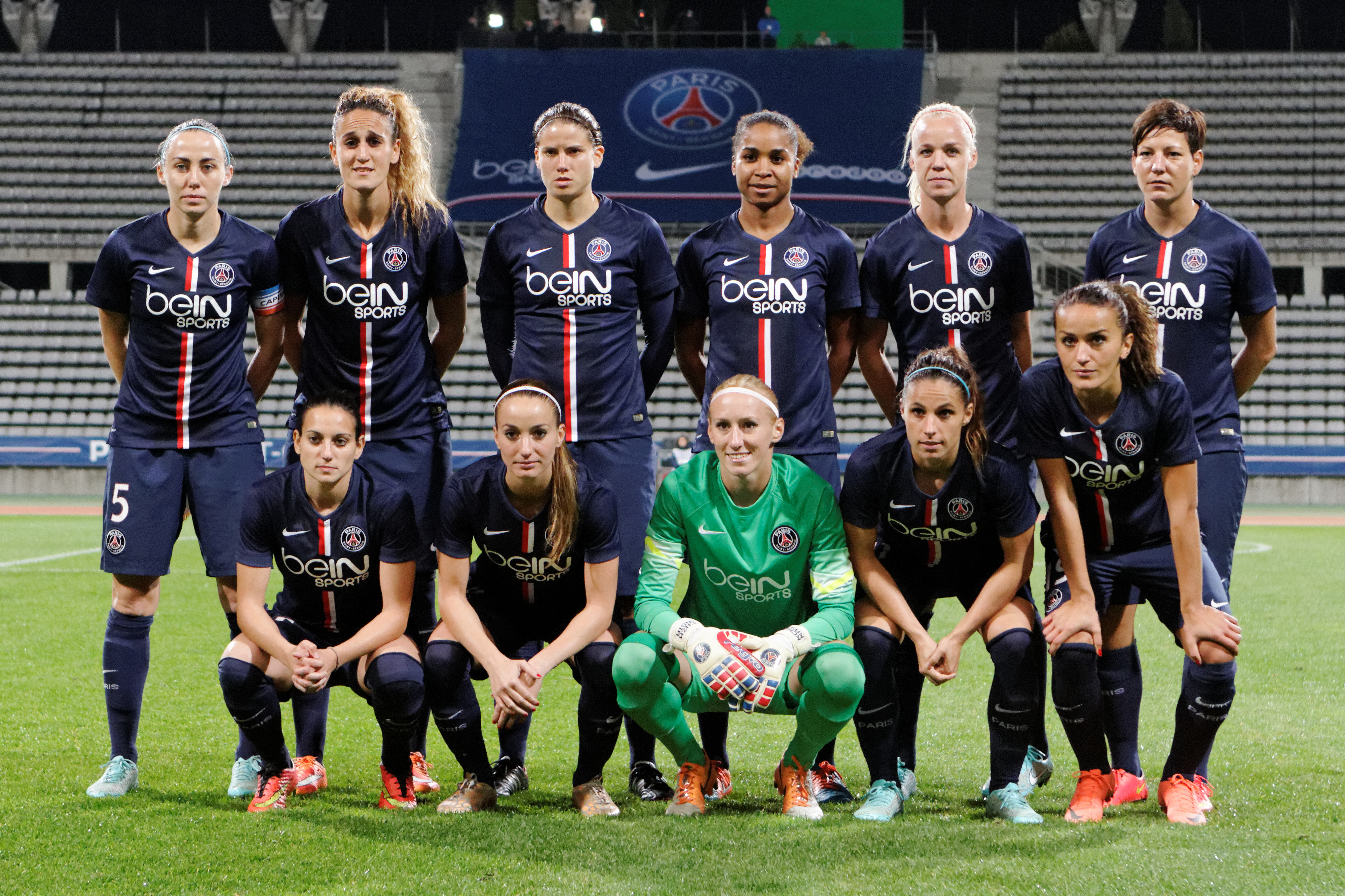 UEFA Women's Champions League, PSG - Twente, 15 October 2014 top: Sabrina Delannoy, Kheira Hamraoui, Annike Krahn, Laura Georges, Caroline Seger, Linda Bresonik. bottom: Aurélie Kaci, Kosovare Asllani, Katarzyna Kiedrzynek, Jessica Houara, Fatmire Alushi.